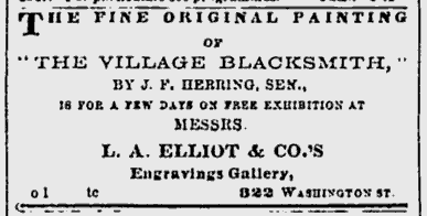 Newspaper item about Lucius A. Elliot & Co., Boston